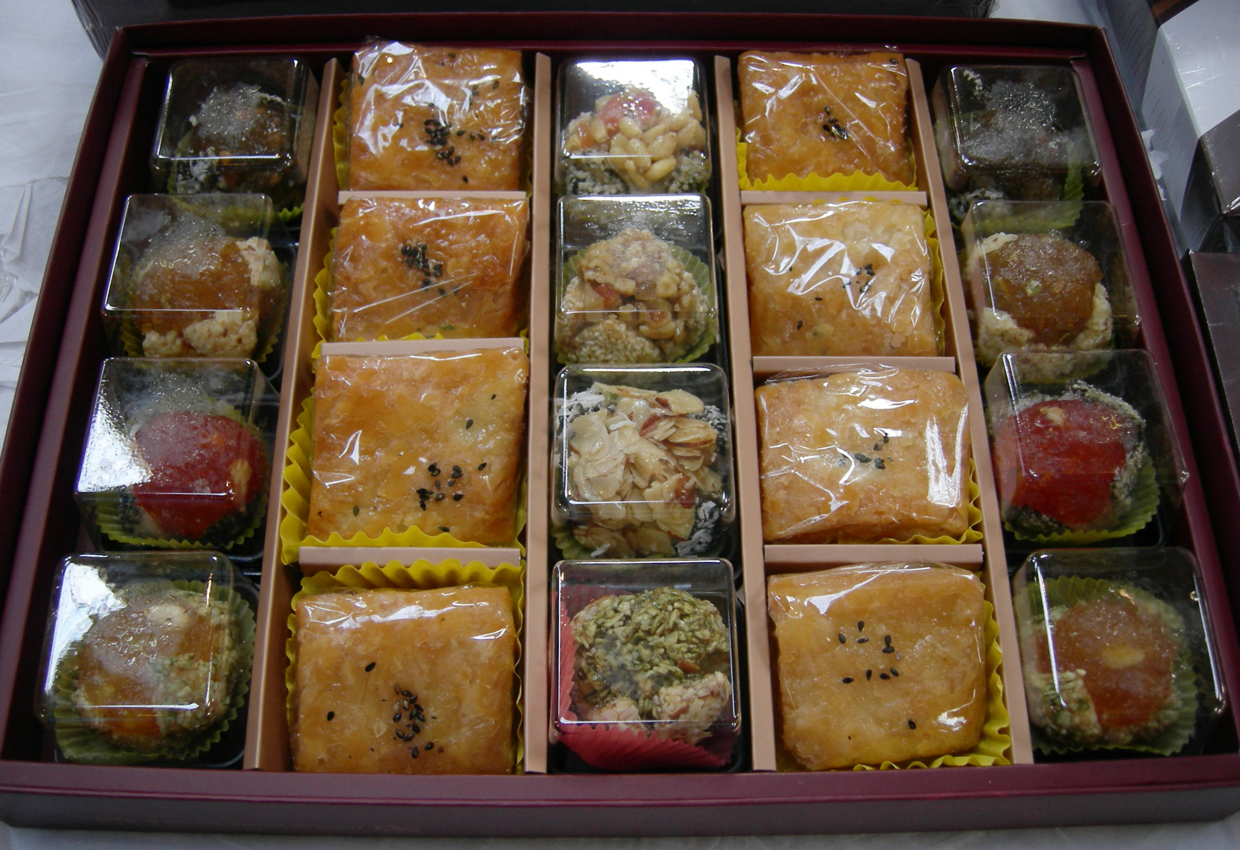 Korean pastries, at Korean Cultural Celebration, part of the Festál series of ethnic events at Seattle Center, Seattle, Washington, U.S.